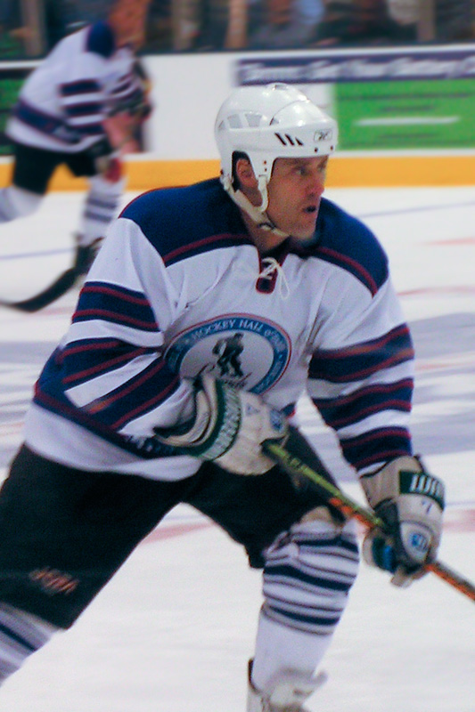 Cliff Ronning played with the All-Star Legends 2008 in Toronto